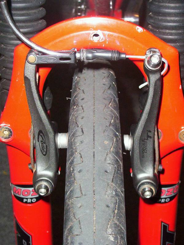 Avid Single Digit Ti bicycle linear pull rim brake